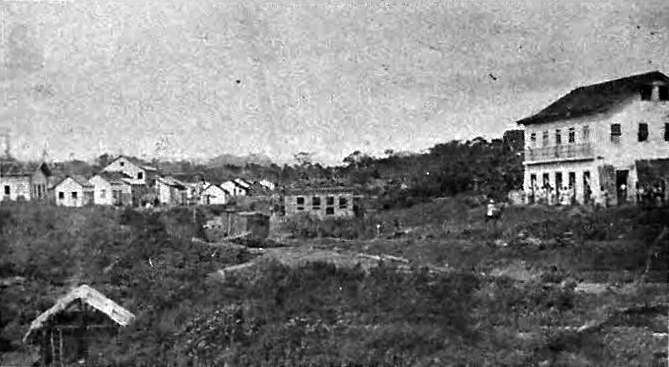 Fundão and house of Agostini family (today's Culture House), before 1922